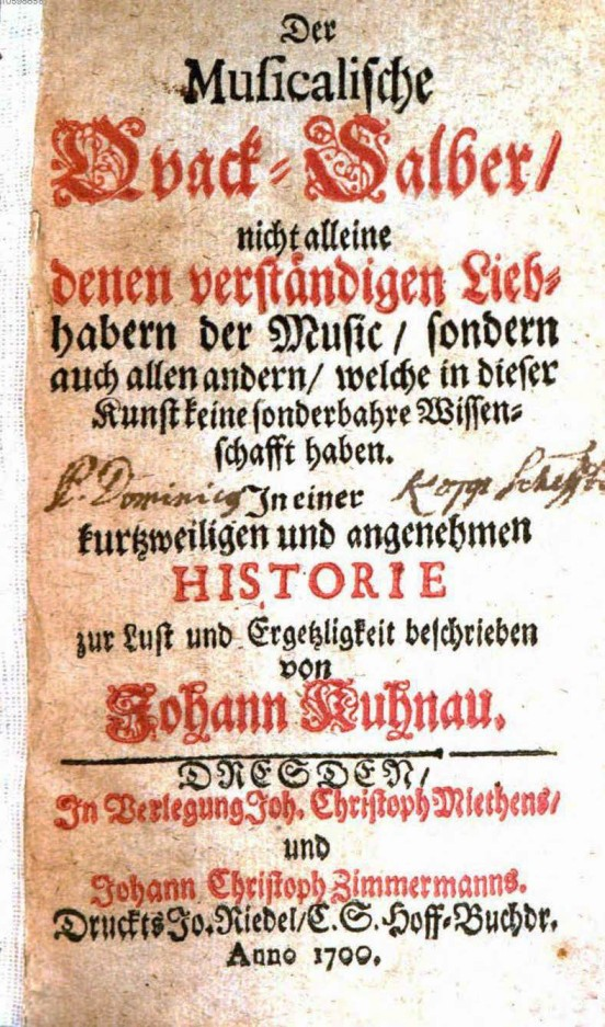 Title page of Der musicalische Quack-Salber by composer and writer Johann Kuhnau. First edition, Dresden, 1700.